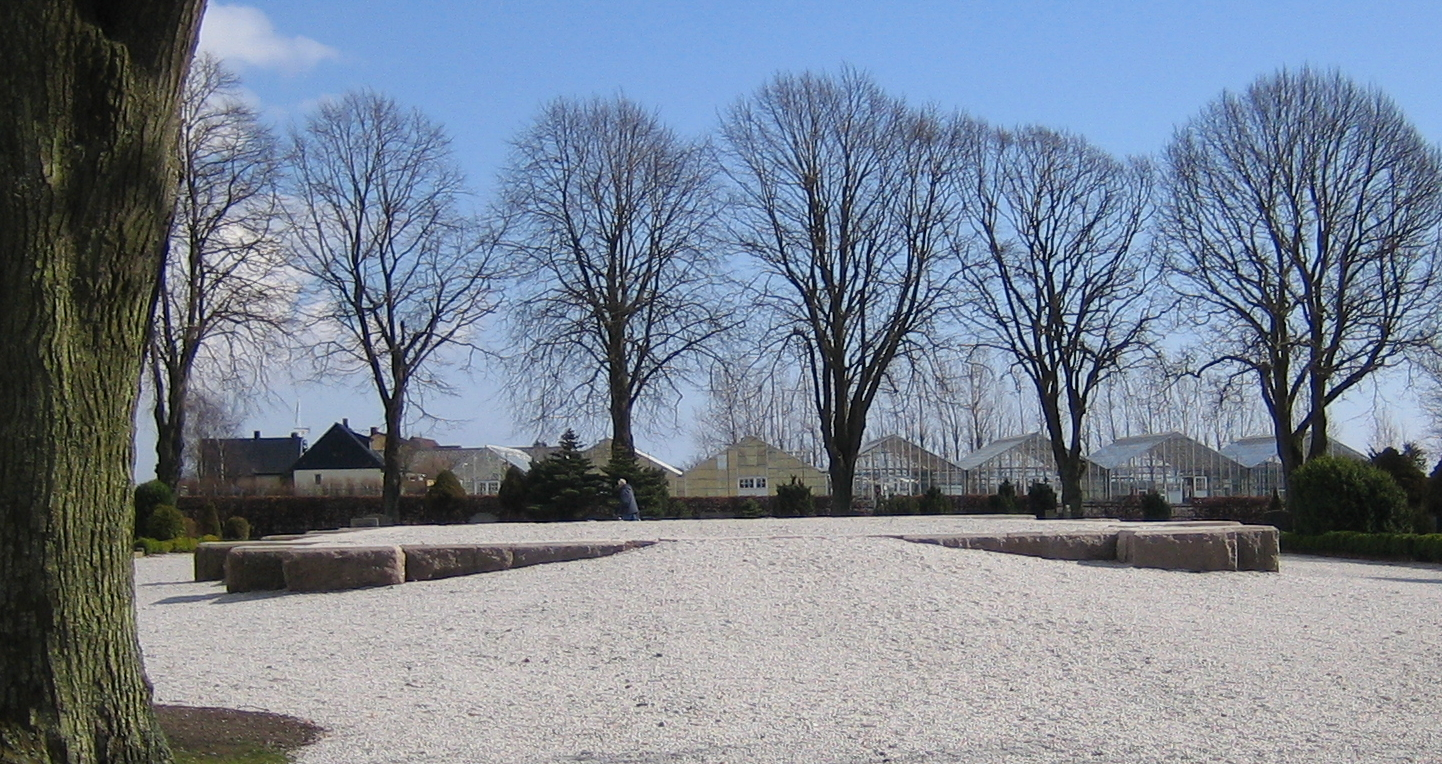 The remains of Maglarps nya kyrka after demolition, in Skåne, Sweden